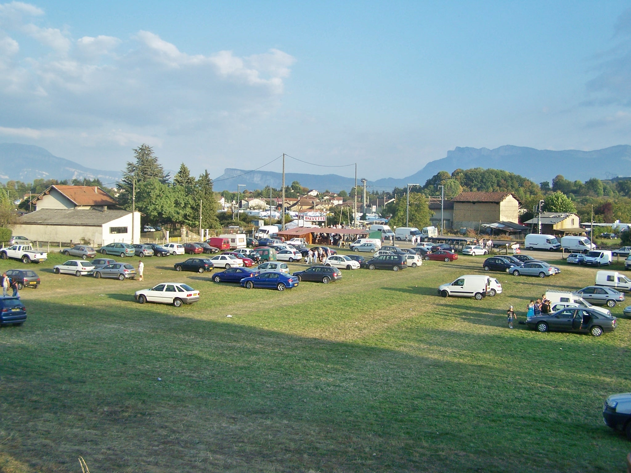 Sight of French commune of Beaucroissant (Isère) during the foire de Beaucroissant event, in autumn 2007.